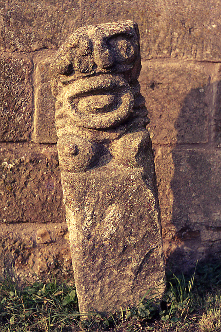 This is a scan from a 35mm transparency which I took in the mid 1970s at Braunston in Rutland, England. It shows a mysterious stone carving known as the "Braunston Goddess", which stands in the churchyard. It was rediscovered (c. 1920) after having been used, face downwards, as a doorstep. This scan is in the Public Domain (however, I retain ownership and copyright of the original transparency and any higher-resolution scans derived from it). If this image is used outside Wikipedia a photographer's credit (Simon Garbutt) would be much appreciated! SiGarb 17:16, 11 December 2005 (UTC)